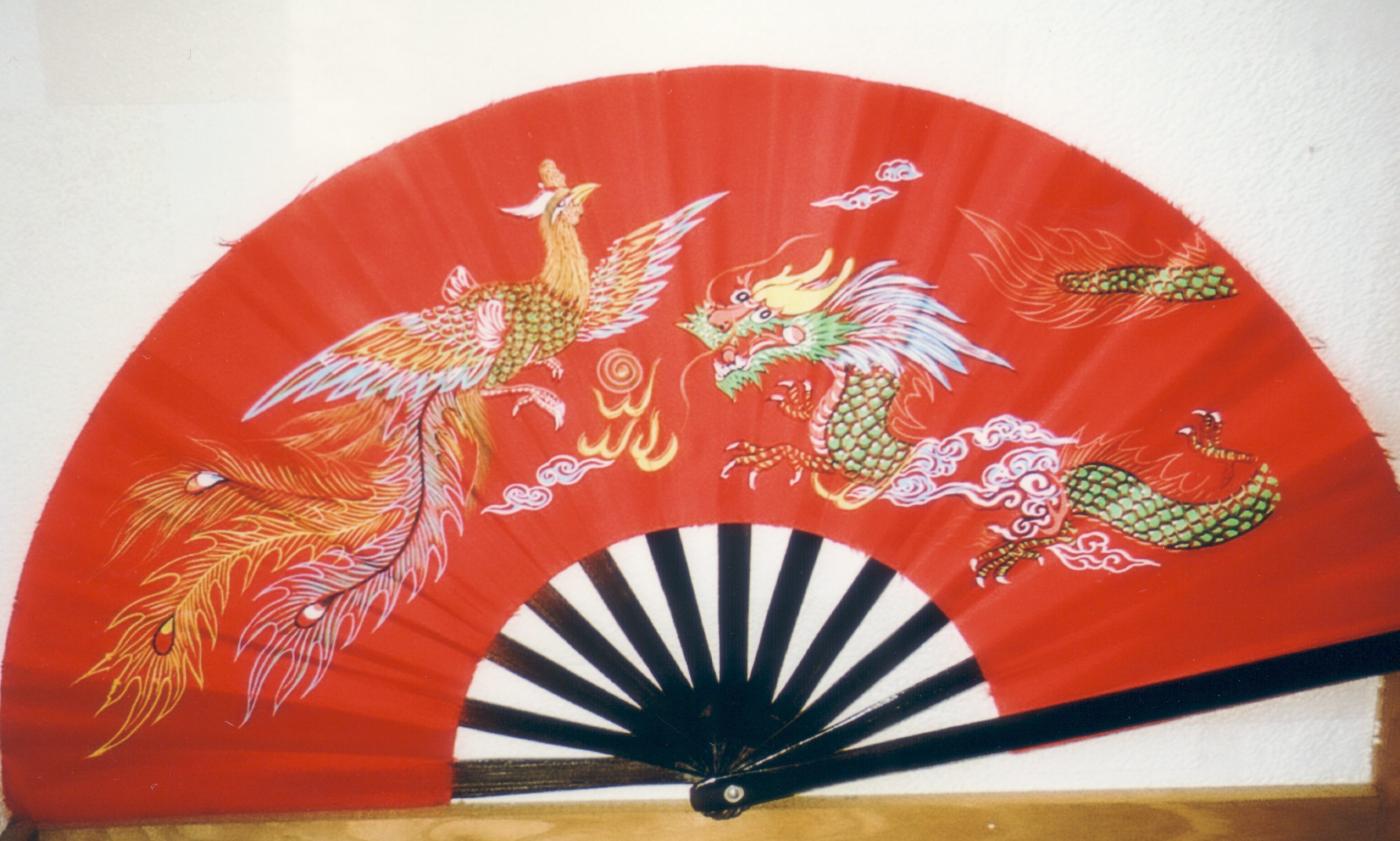 Chinese Tai Chi Chuan fan representing phenix and dragon